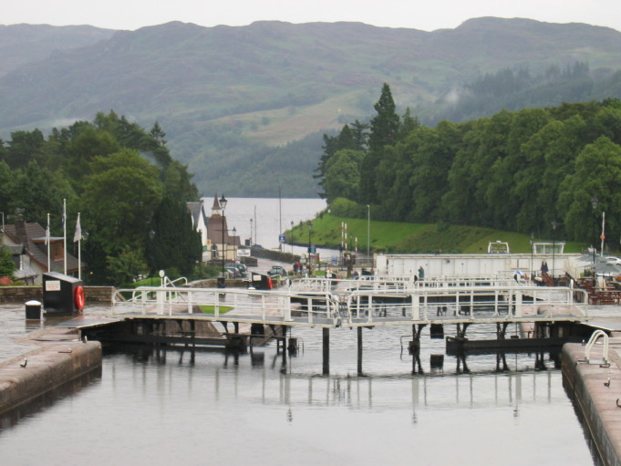 The Caledonian Canal, Fort Augustus. Picture taken by PerPlex.